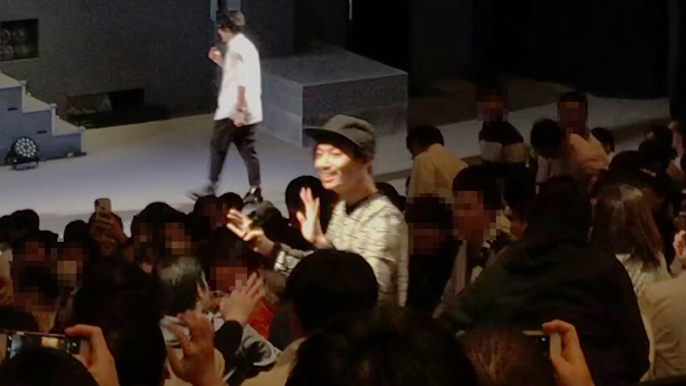 Hidekazu Tanaka (affiliated with MONACA), a Japanese composer, performed DJ at Aikatsu! ANION DJ Live Picture Record "Calendar Girl" Launch Event on March 8, 2019. Participants were permitted to take photos in the event.